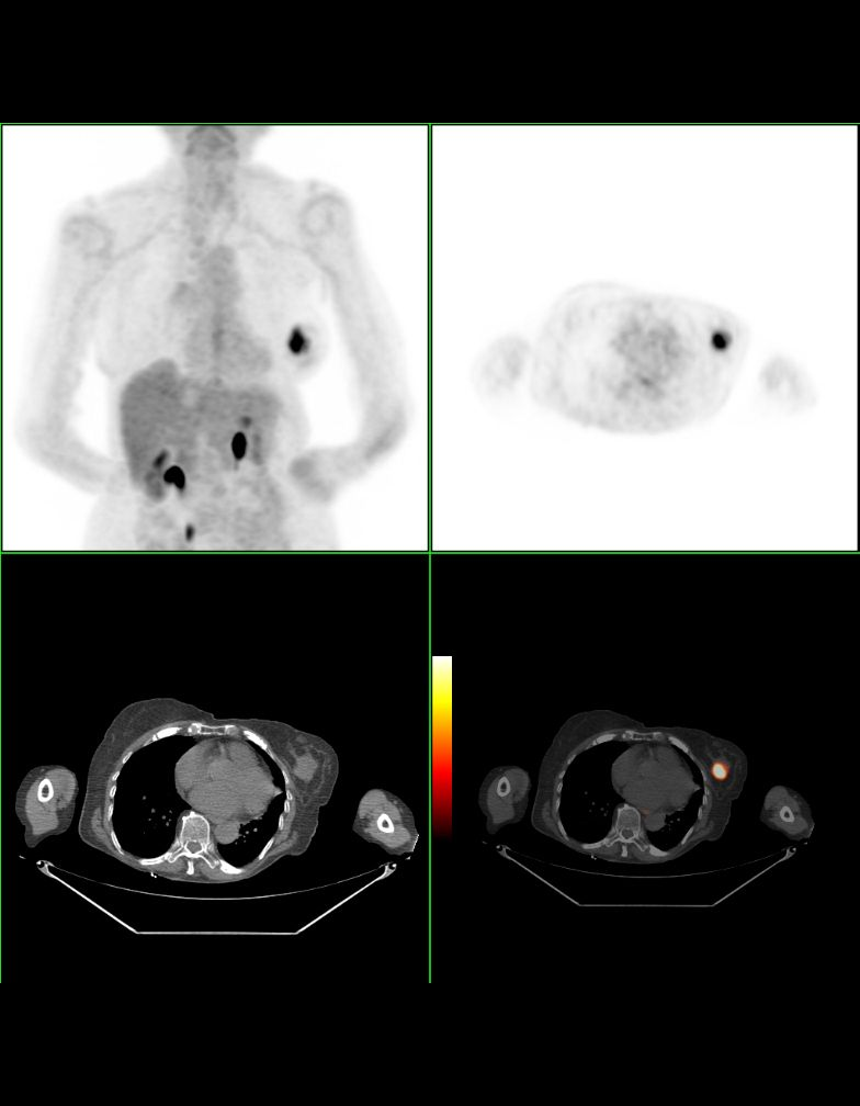 PET/CT study of breast cancer; injected dose: 380 MBq, tracer=F18-FDG, acquired 75 minutes after injection, body weight and size unknown, SUV max=35.9, lesion size about 8cm³, CT window: 500/50, fusion image minimum threshold:10 kBq/ml; upper left image: MIP PET, upper right: axial PET, lower left: axial CT, lower right: fused image